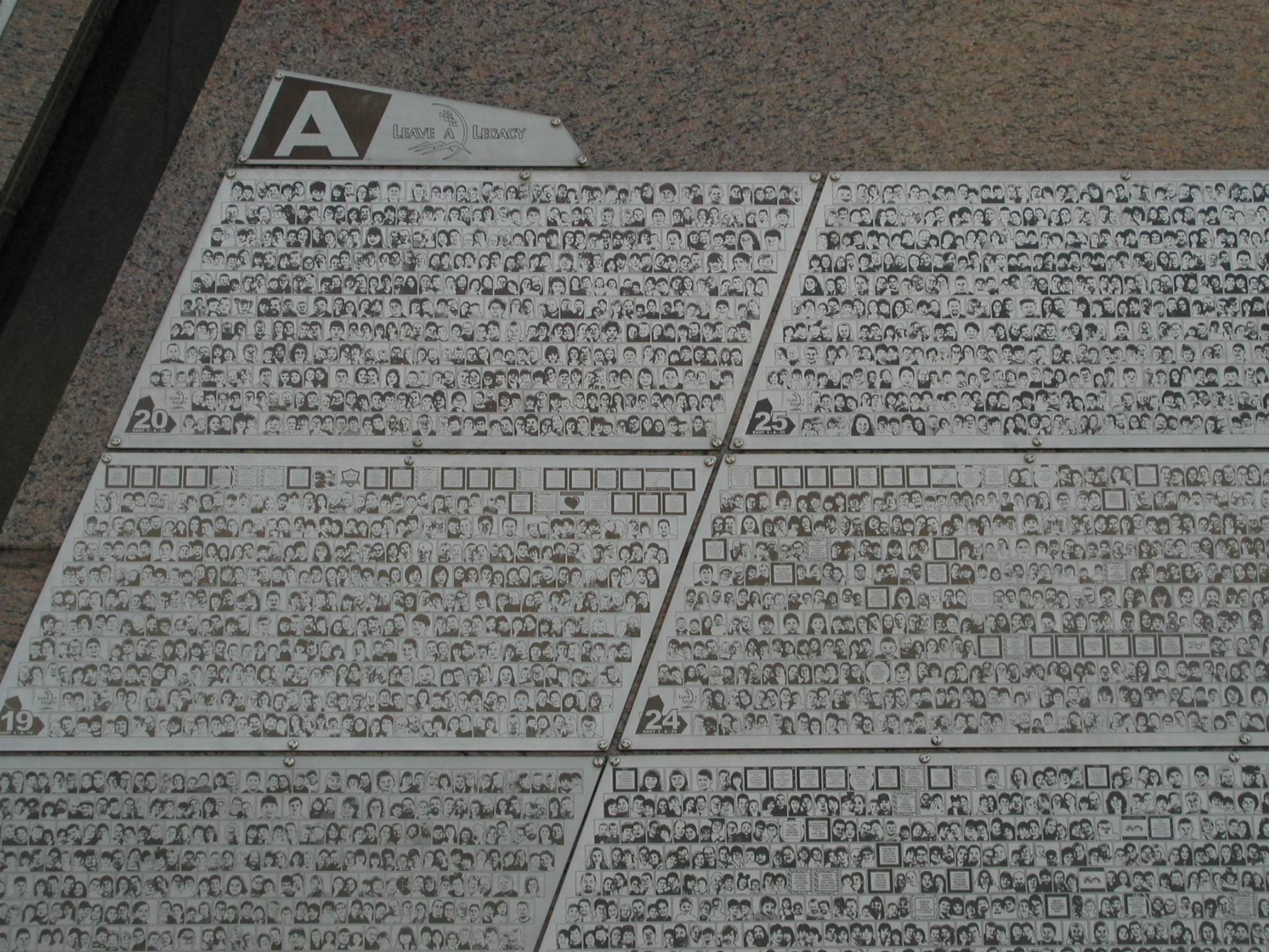 Some of the tiles on the Leave a Legacy sculpture at Epcot at Walt Disney World.